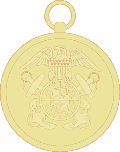 The common obverse of NOAA and Coast and Geodetic Survey award medals